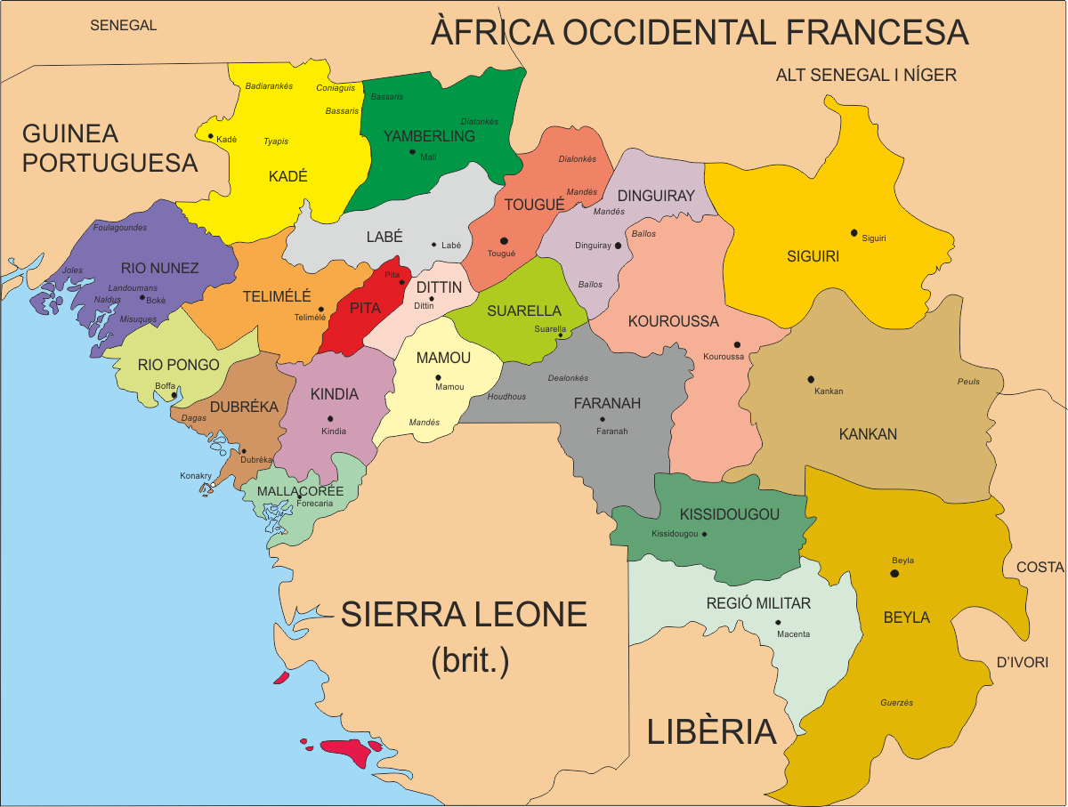 Map of administrative divisions (Cercles) of Guinea in 1911